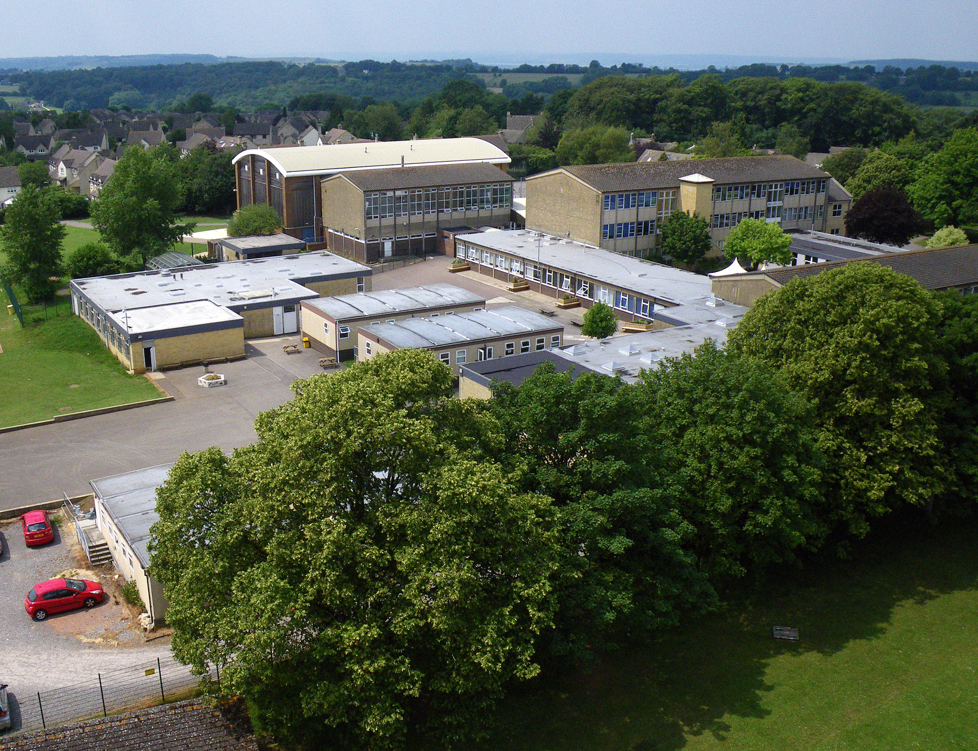 Kite aerial photo of Thomas Keble School, Eastcombe, July 2011.